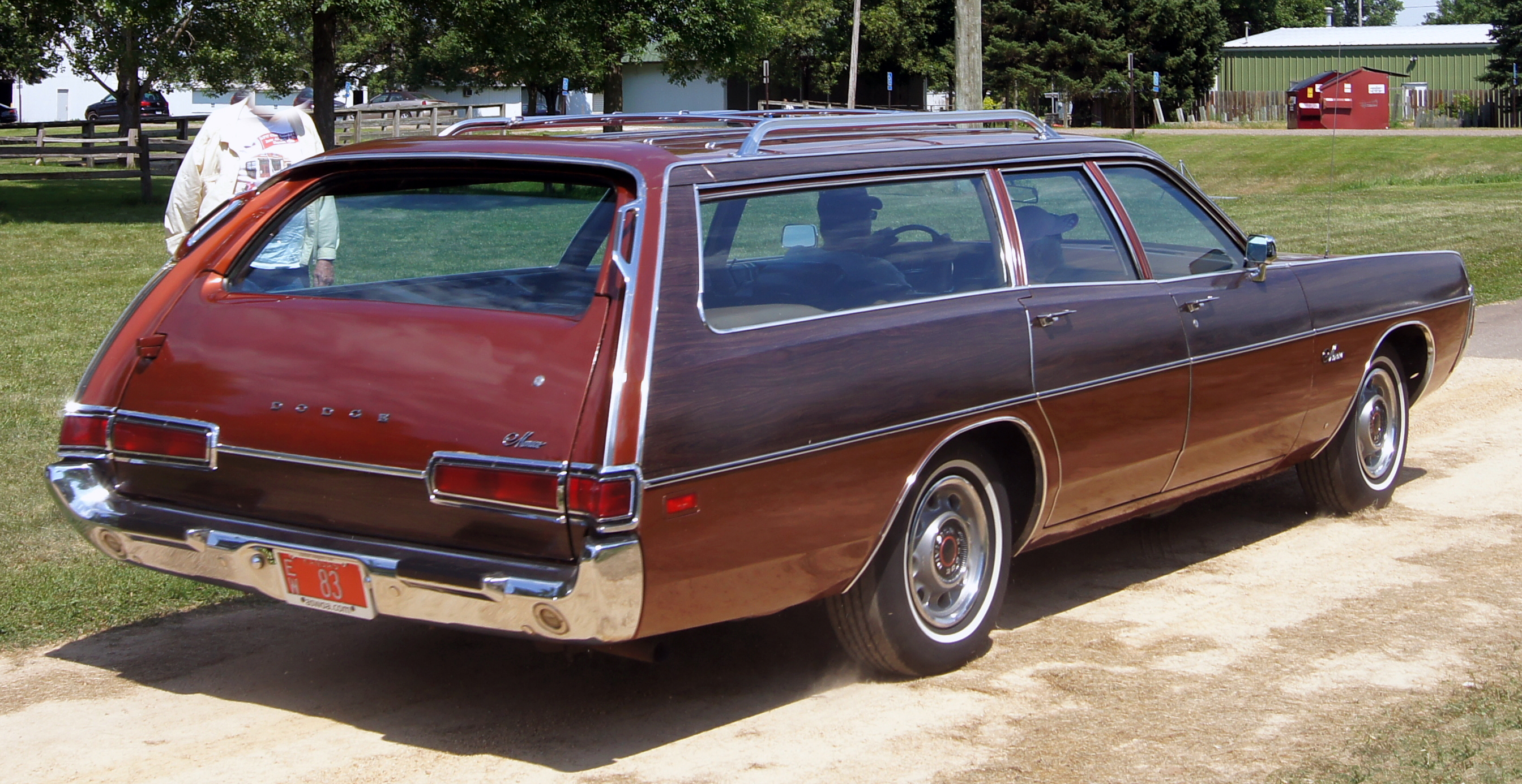 1971 Dodge Monaco Station Wagon at the 1st Combined Convention (28th Annual National DeSoto Club Convention & 44th Annual Walter P.Chrysler Club Convention), July 17 - 21, 2013, Lake Elmo, Minnesota.